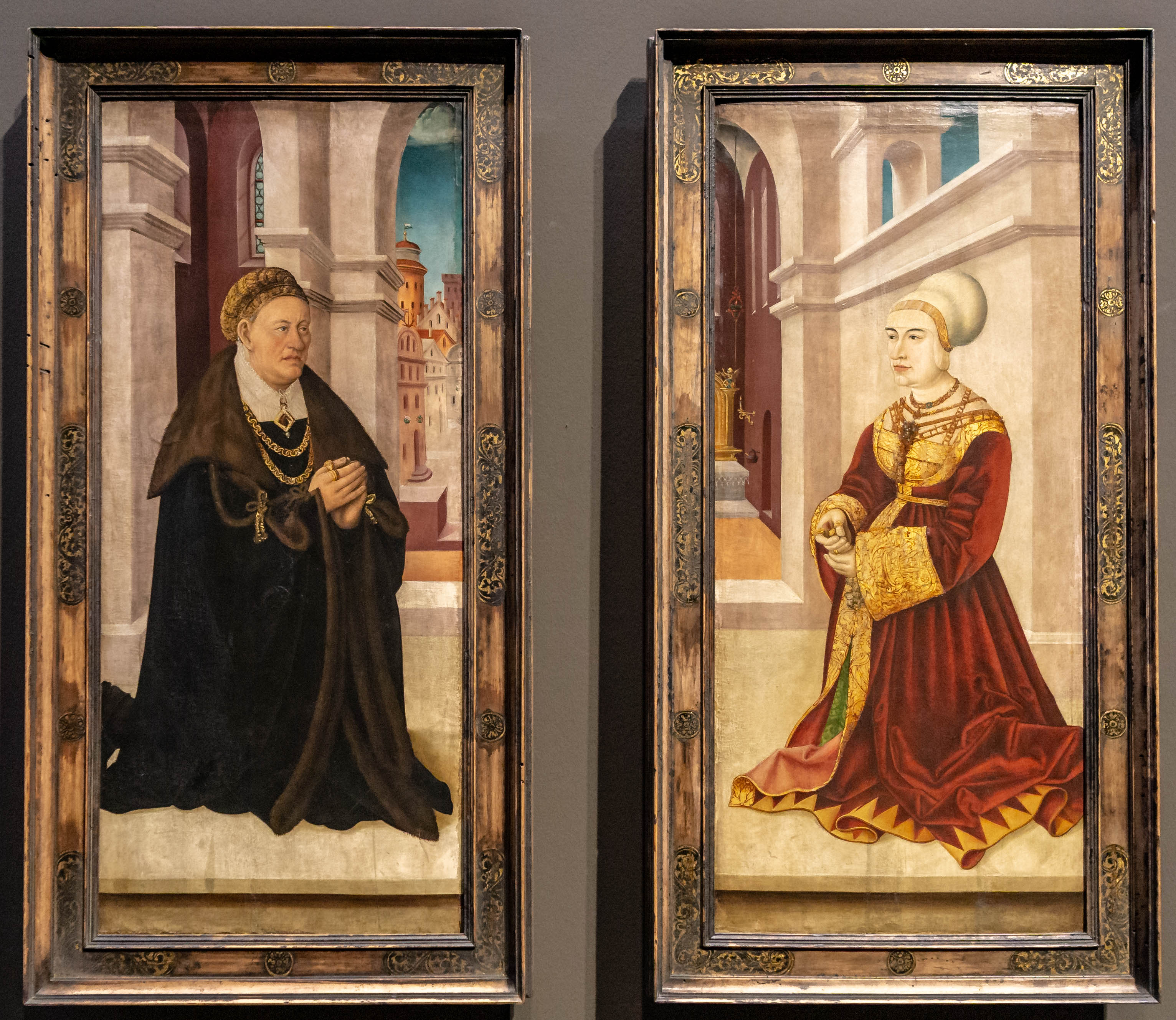 Ludwig von Freyberg (* Württemberg castle 1468, † Öpfingen 21.5.1545) and his wife (marriage in 1488) Sibylla von Freyberg née Gossenbrot (* 1479, † 1521)